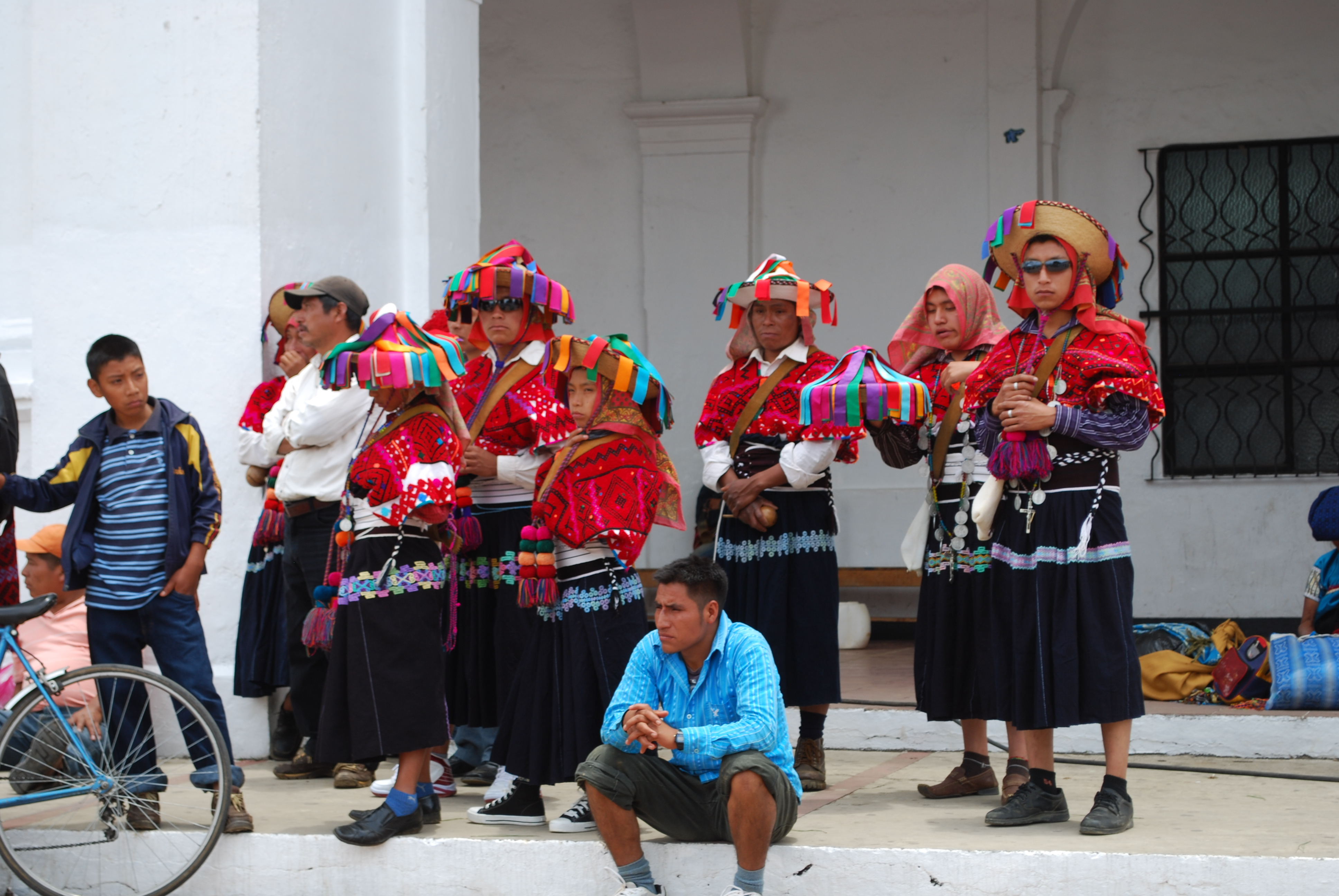 Tzeltal dancers waiting to perform at the municipal palace in San Cristobal de las Casas, Chiapas, Mexico